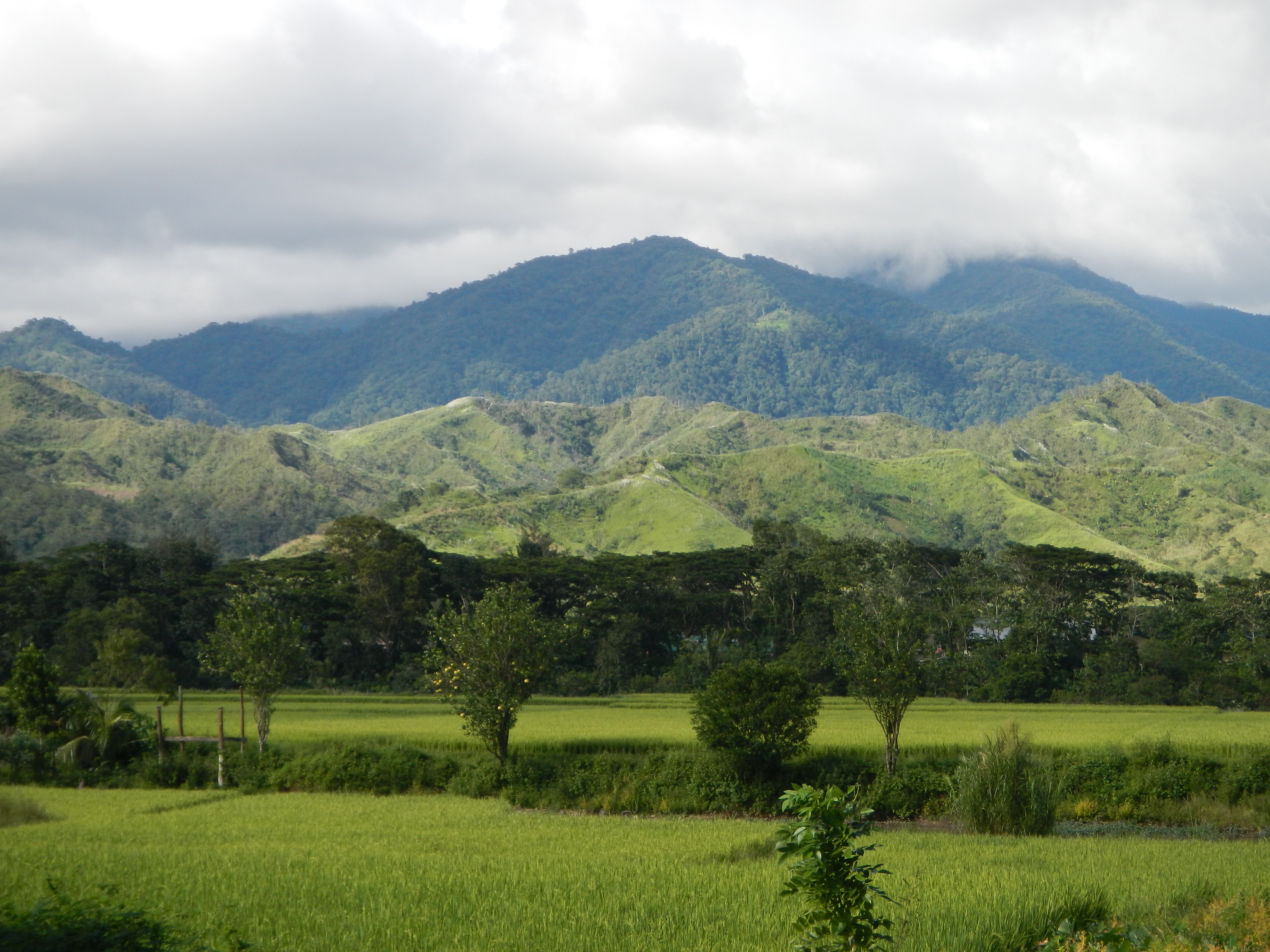 Upload Wizard (general description of landmarks, interesting points, church, town hall, offices) photos of the scenery, the greens, hills, mountains) - Alfonso Castañeda Town Hall, - (Yellow flowers - being watched by the majestic - Mount Guiwan[1] (Village of Pelaway, Alfonso Castañeda[2]) - Alfonso Castañeda, Nueva Vizcaya [3] (a 4th class municipality in the province of Nueva Vizcaya, [4] Philippines; latest census, population of 6,655 people in 873 households; politically subdivided into 6 barangays; [5] Coordinates: 15°47'45"N 121°18'11"E - the waters from the Casecnan Dam[6] and the Canili-Diayo Dam, Maria Aurora, Aurora flows through this river, bridge[7] - Alfonso Castañeda, Nueva Vizcaya municipality, third-level administrative division Coordinates: 15°53'57"N 121°20'9"E Map [8] [9] [10] Geographical location: Aurora, Region 4, Philippines, Asia Geographical coordinates: 15° 48' 13" North, 121° 18' 22" East); Mount Guiwan[11] (a mountain in the Sierra Madre[12] range in Alfonso Castañeda, Nueva Vizcaya, Philippines, probably the highest peak of Sierra Madre mountain range with a height of 1,915 meters above sea level according to NAMRIA topographic map) Underneath Mt. Guiwan, a tunnel that diverts water from the Casecnan River in Brgy. Pelaway to Pantabangan Dam in Nueva Ecija was constructed by the Casecnan Multi-Purpose Transbasin and Power project contracted by California Energy; beauty of the placid scenery of the waters from the dam[13][14] [15]; First Gen Hydro Power Corporation (FG Hydro) owns and operates the Pantabangan-Masiway Hydroelectric Complex (PMHEP); the Pantabangan and Masiway plants are cascading hydroelectric power plants located in Nueva Ecija. Commissioned in 1977 and 1981, respectively, the Pantabangan and Masiway plants are part of a multipurpose hydro complex that supplies irrigation water for the vast rice fields of Nueva Ecija.).